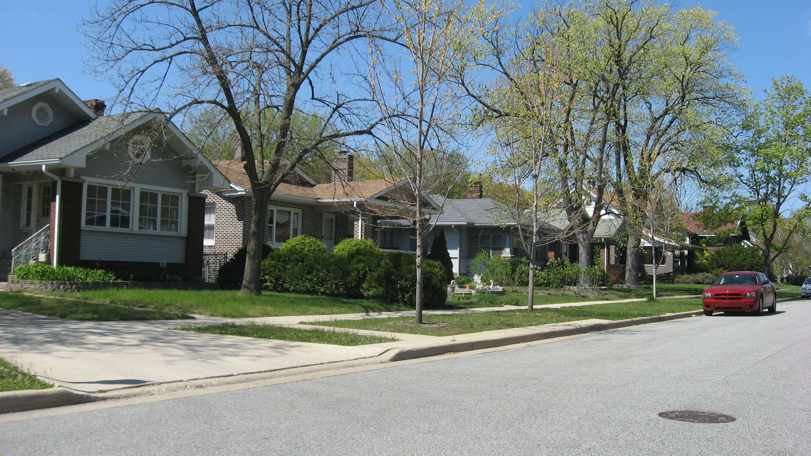 Five houses on the western side of the 6400 block of Forest Avenue in Hammond, Indiana, United States. Built in 1920, they are part of the Forest-Moraine Residential Historic District, a historic district that is listed on the National Register of Historic Places.